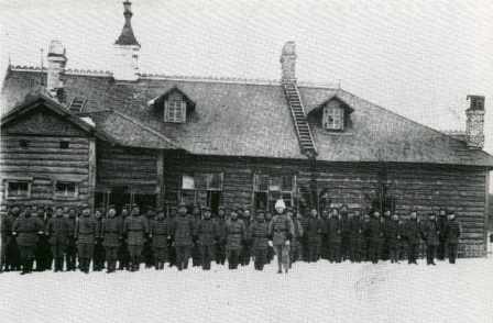 This photo, taken in December of the year 1919, depicts Colonel Georg Elfengren with his men of the North Ingrian regiment, shortly after occupying the village of Kirjalaso from RSFSR forces.